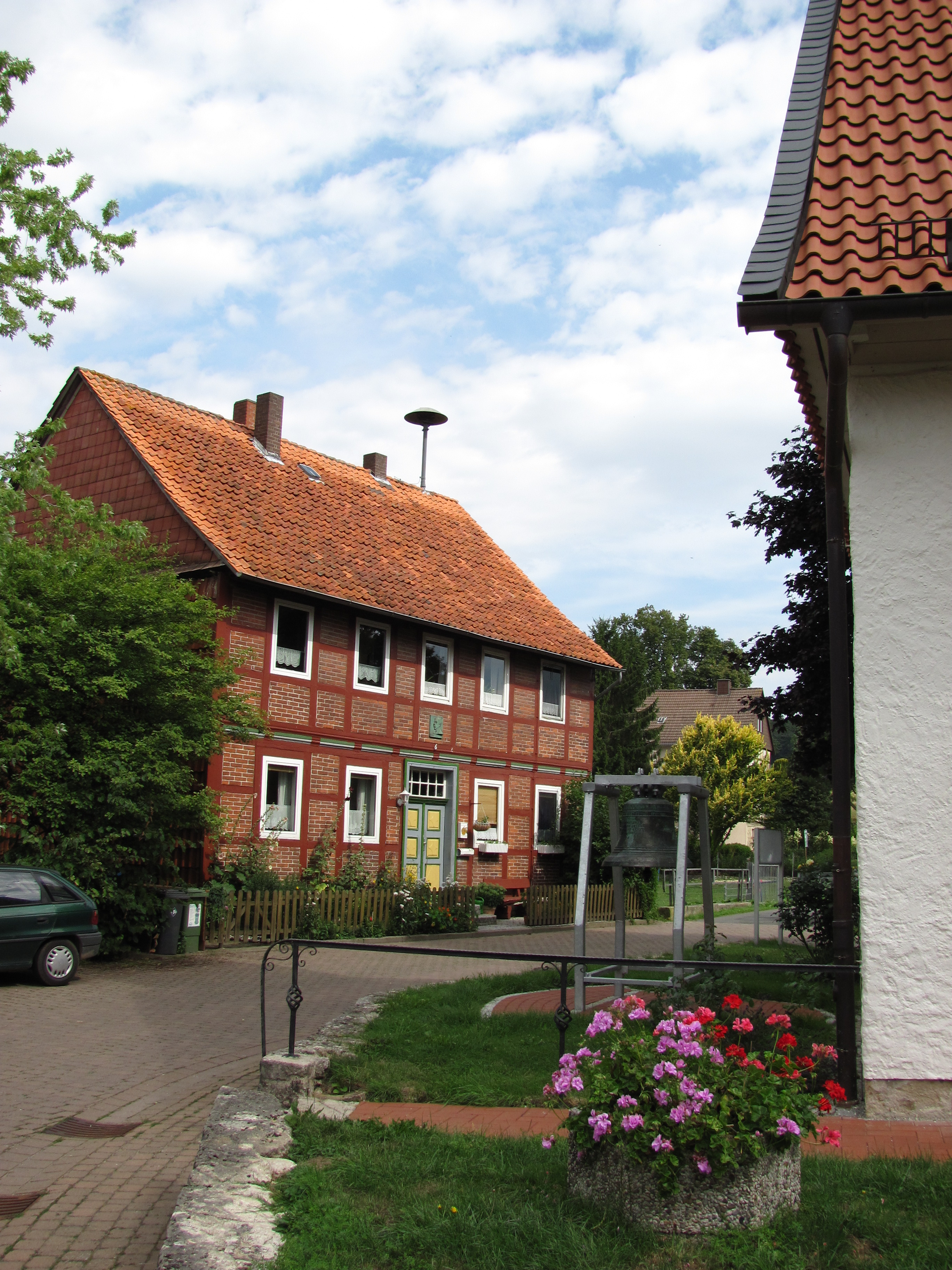 Main Street, Sibbesse-Moellensen, Germany